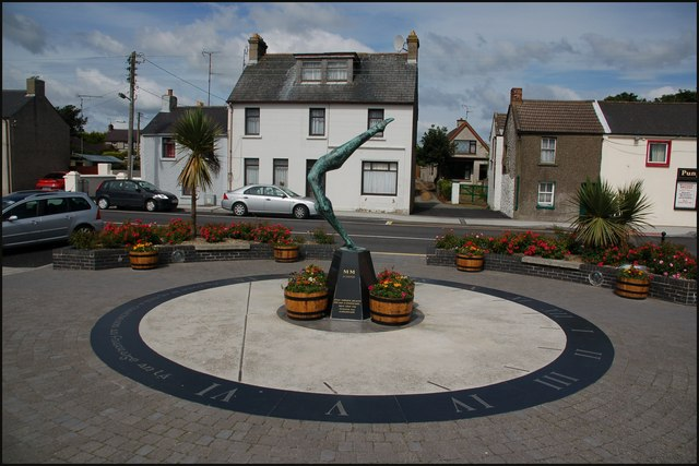 The Blackrock sundial, Co Louth. See 478063. The sundial, on the seafront, was erected in 2000 to mark the millennium.